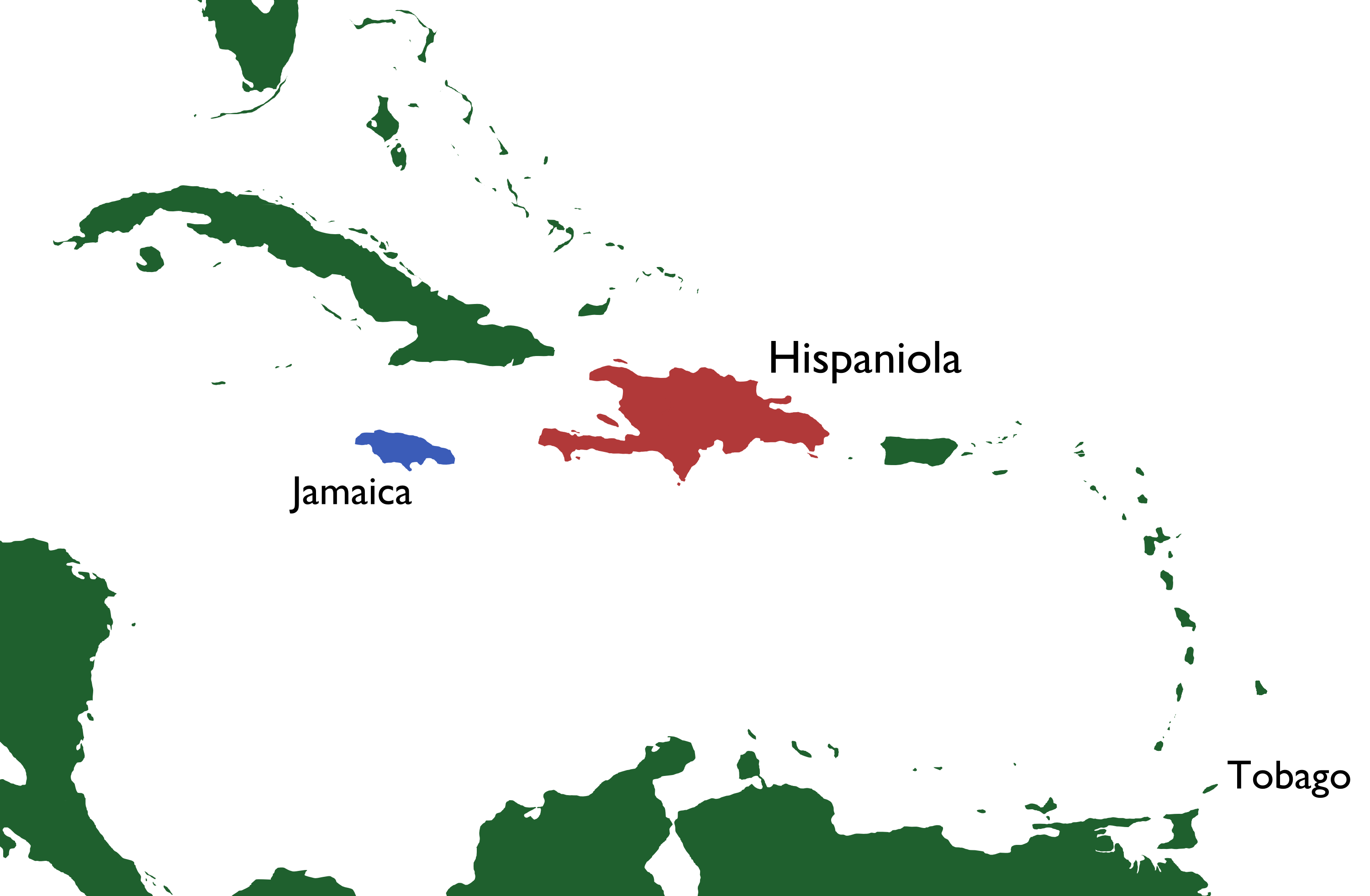 Map of the Caribbean, highlighting islands relevant to understanding the Zong Massacre